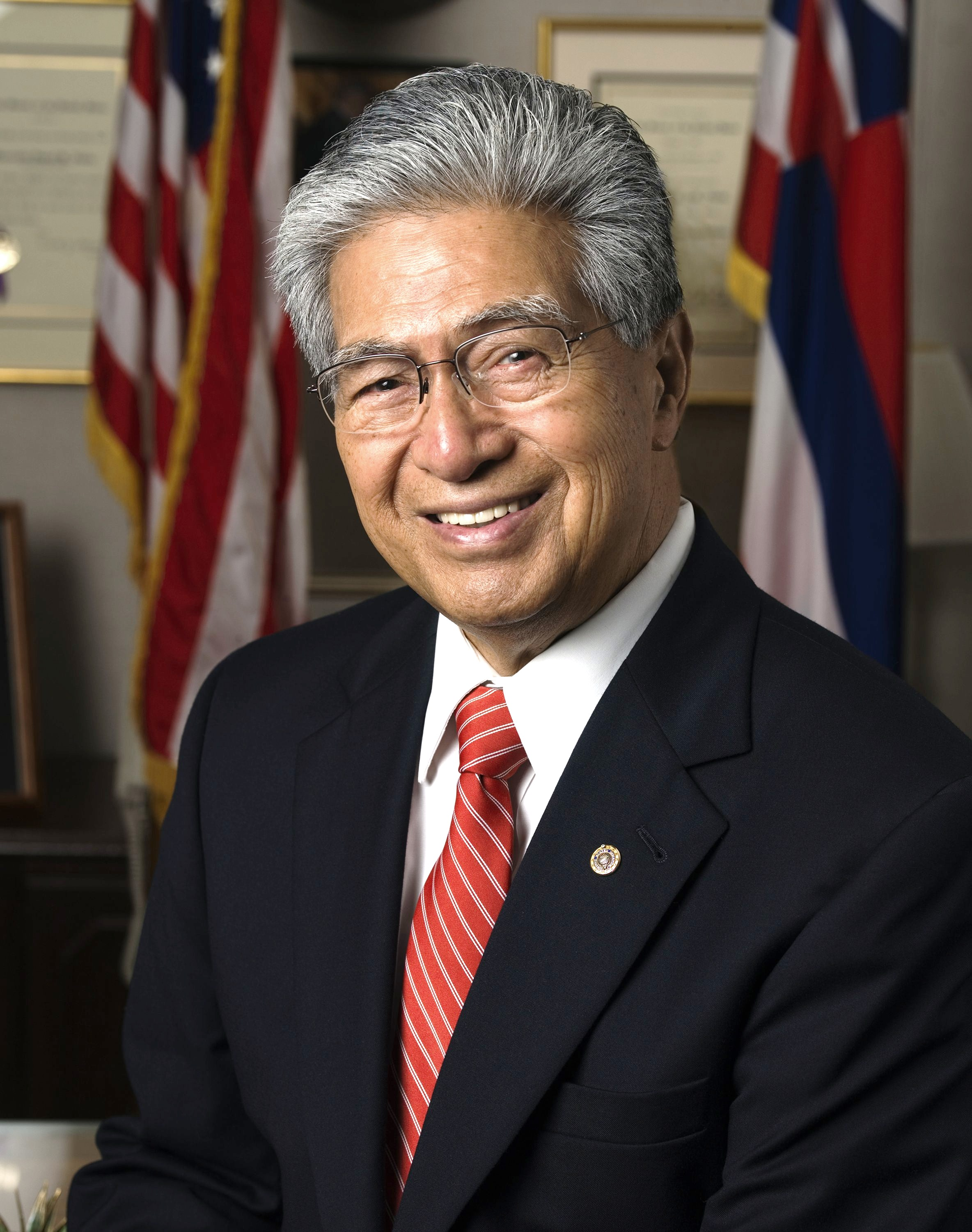 Daniel Akaka official Senate photo.